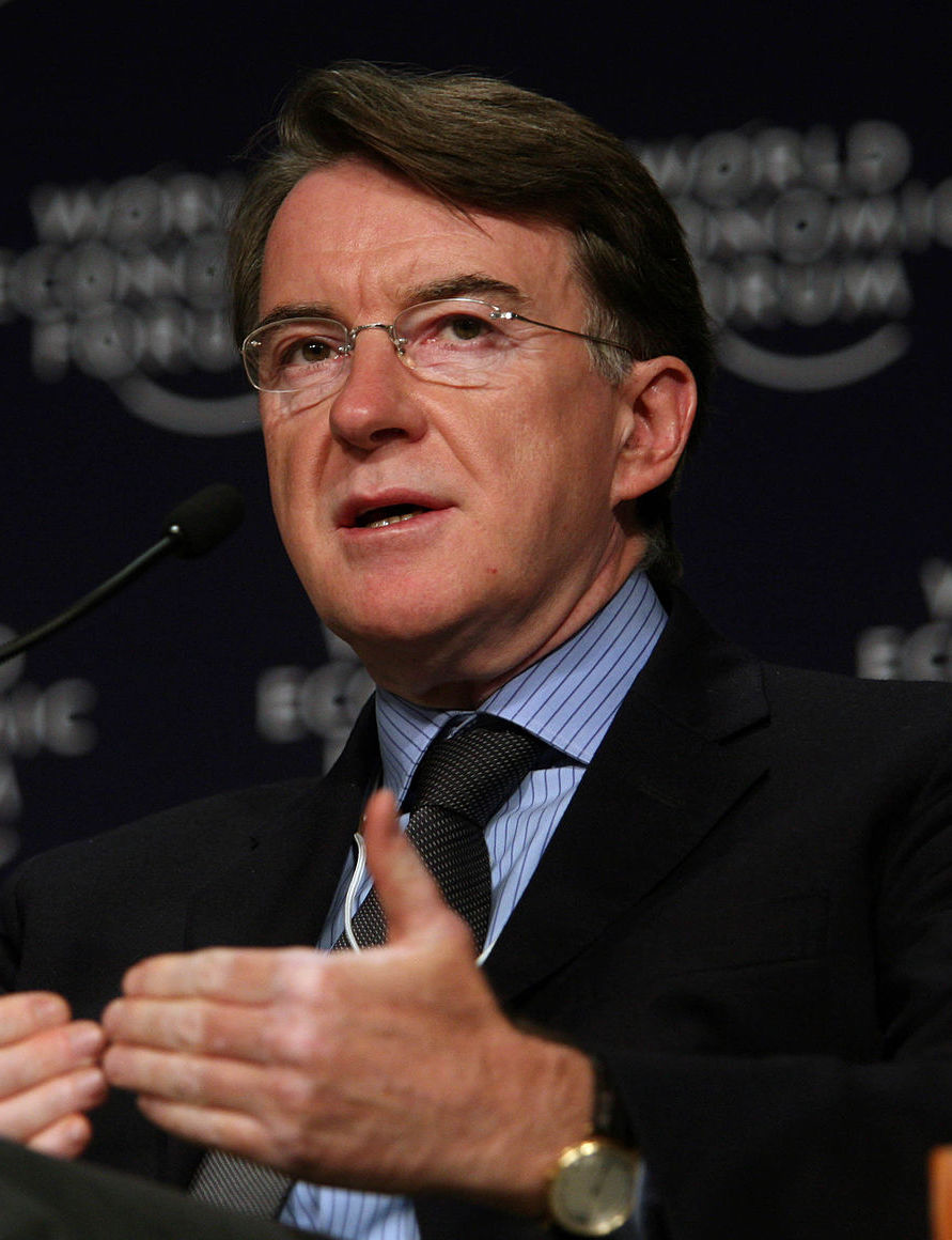 Peter Mandelson, British politician and European Trade Commissioner, at the World Economic Forum Annual Meeting of the New Champions in Tianjin, China.